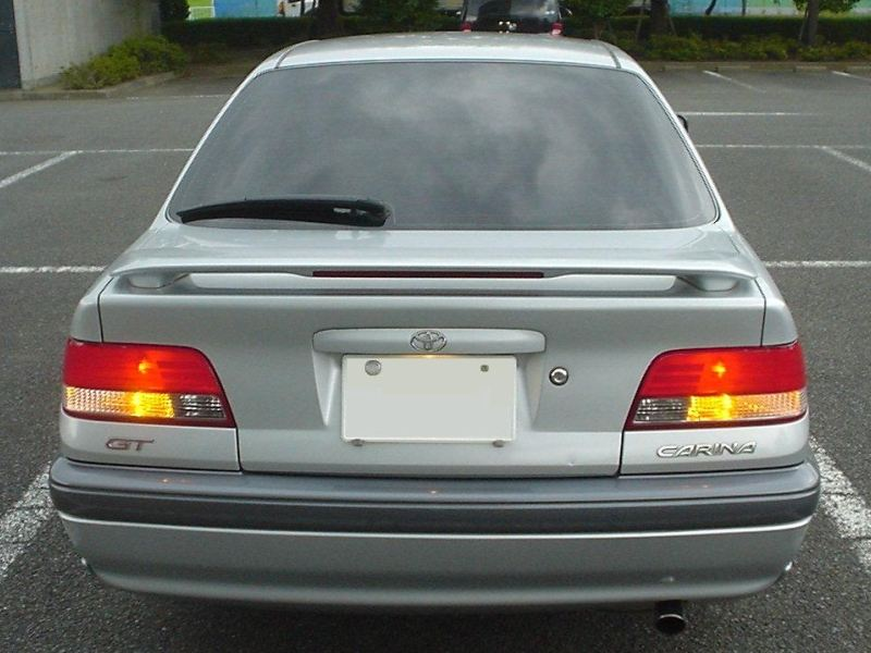 1996 Toyota Carina GT(type AT210) taken in Samukawa,Kanagawa,Japan